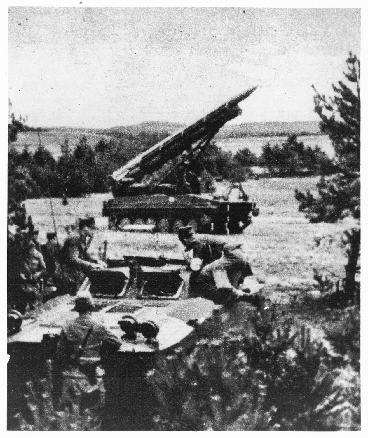 Soldiers of the 41st Tactical Rocket Battalion (41 Dywizjon Rakiet Taktycznych in Polish) during the first trial shooting at the Drawsko Pomorskie artillery range, near Stara Studnica, in 1965. The unit used the 2P16 self-propelled rocket launcher with 3R9 warheads (conventional). The crew of the launcher was: Lt. Józef Janeczek (commanding officer), Cpr. Sławomir Ebert (deputy), Cpr. Franciszek Krzykawski (electrician), private E-1 Kazimierz Dzięcielewski (bombardier), Cpr. Sławomir Węclewski (driver), private Andrzej Ruszkiewicz (2nd bombardier) and pvt Andrzej Stolarski (radio operator).